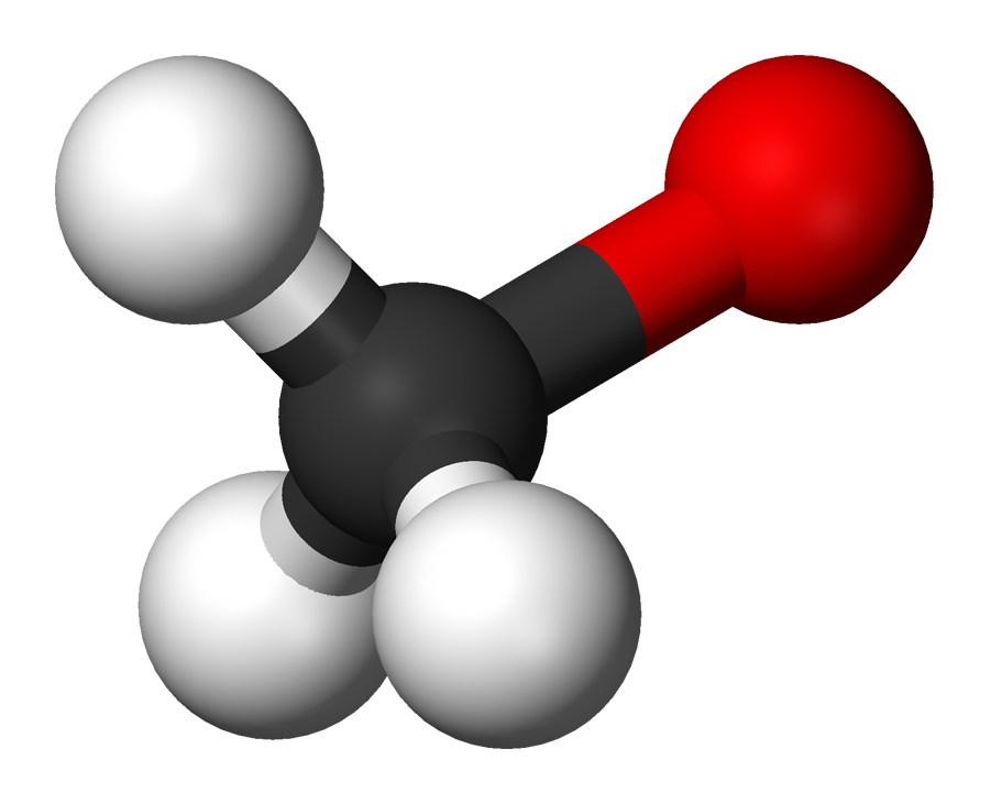 Ball and stick model of the methoxide anion.